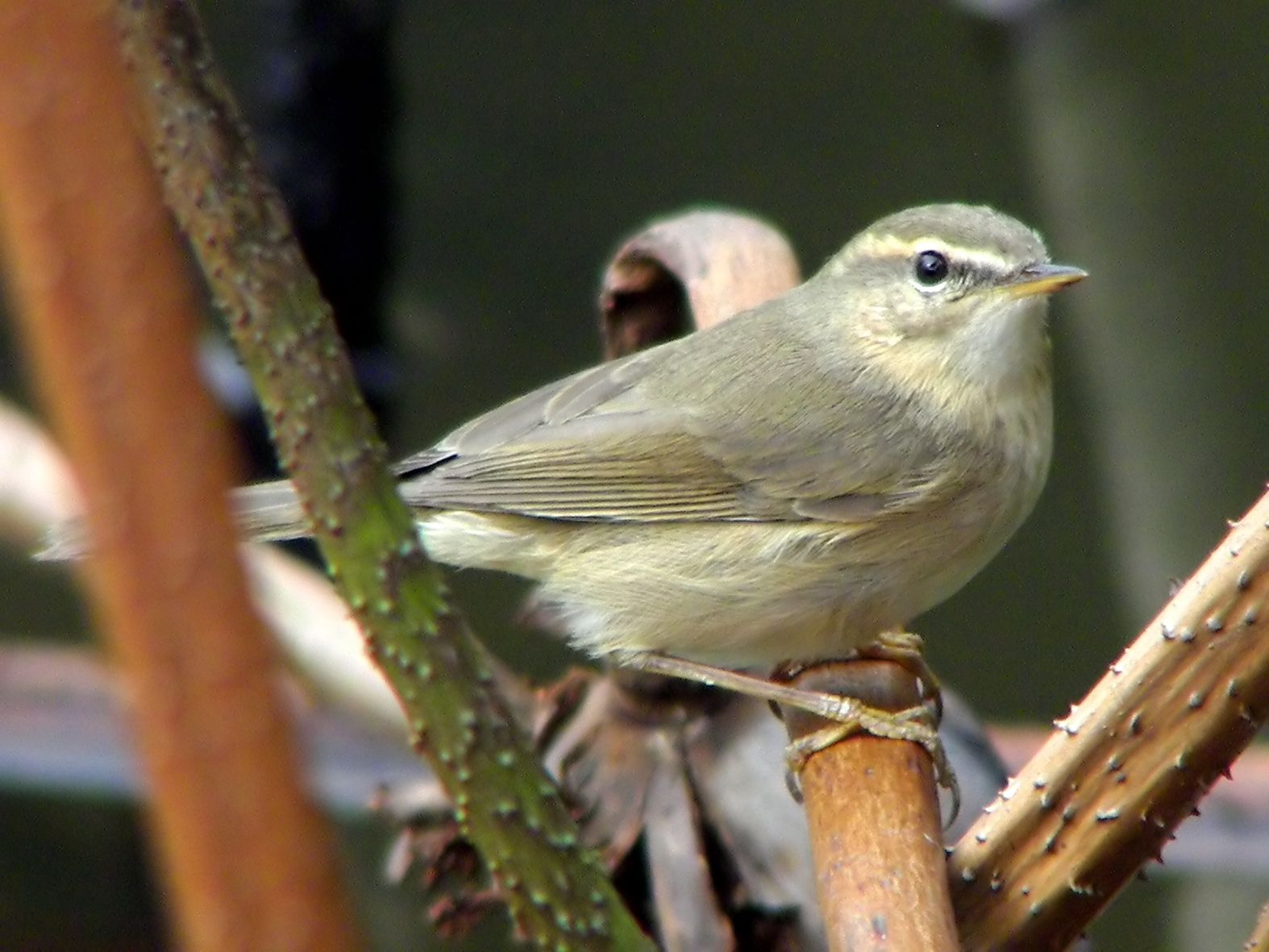 Dusky Warbler Phylloscopus fuscatus, Taiwan